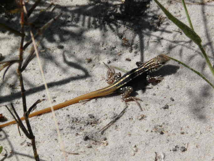 Heliobolus lugubris in Maun, Botswana